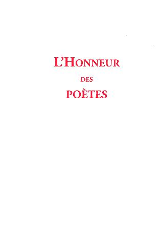 Cover page of the 2014 edition